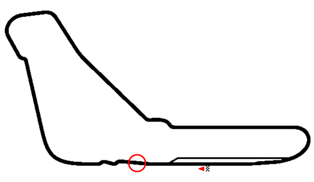 Accident sketch Ronnie Peterson Monza 1978